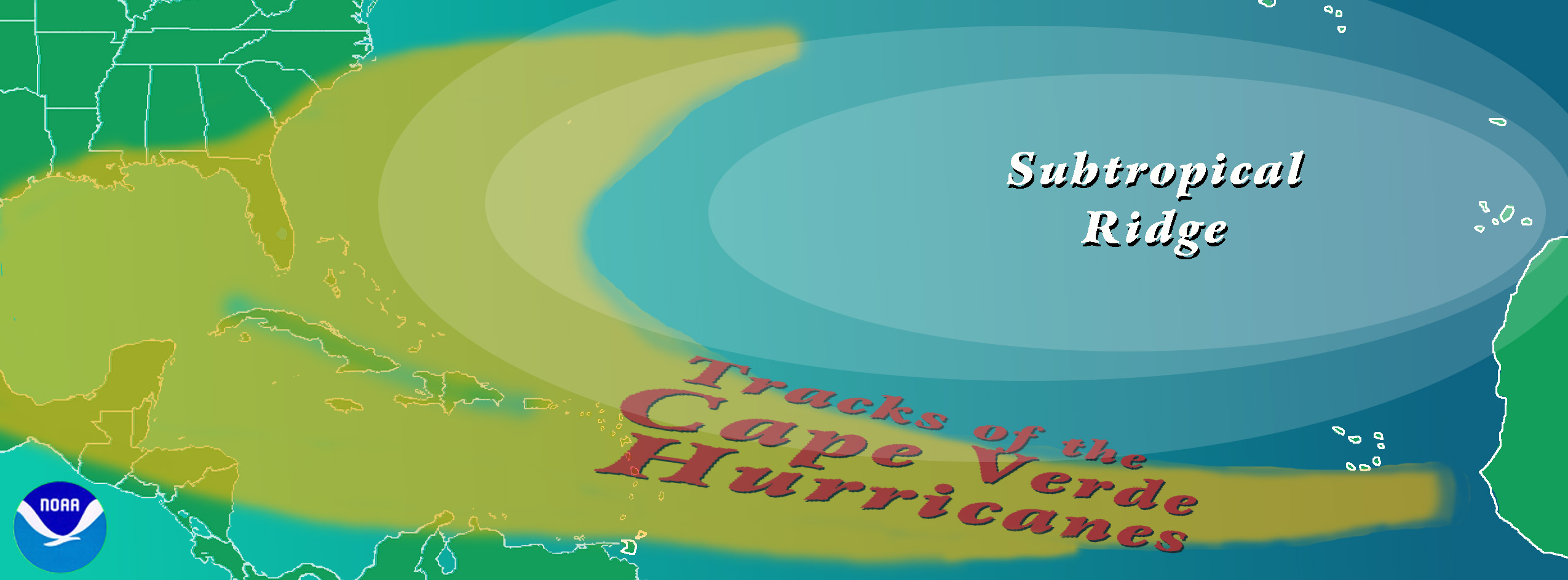 Graphic showing the typical track of a Cape Verde-type hurricane. The tracks begin south of Cape Verde in the eastern Atlantic Ocean. Contents 1 Copyright status 2 Source 3 Licensing 4 Original upload log Copyright status The NOAA emblem is the property of the U.S. Government and a trademark of the United States Department of Commerce. Source NOAA graphic from Afbeelding:KaapverdischeOrkanen.jpg